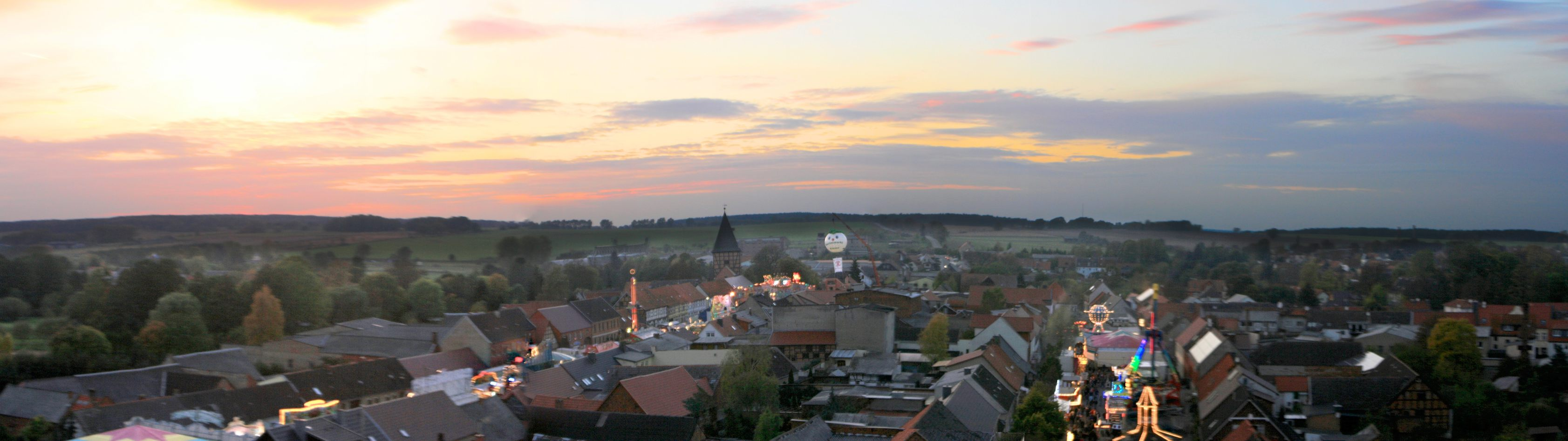 Funfair around St. Martin's Day in Kloetze (Germany) 2010